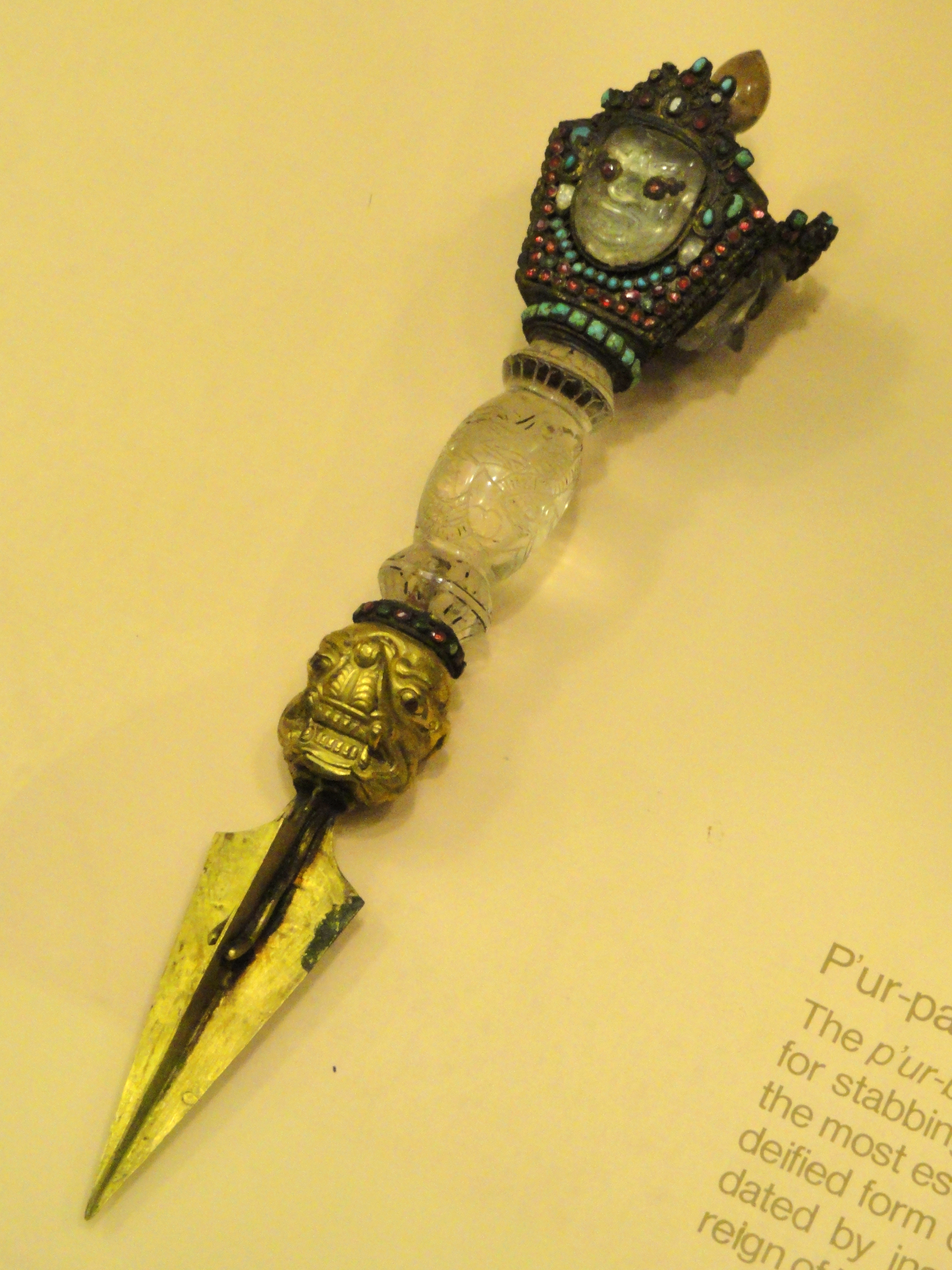 Exhibit in the Asian collection of the American Museum of Natural History, Manhattan, New York City, New York, USA.